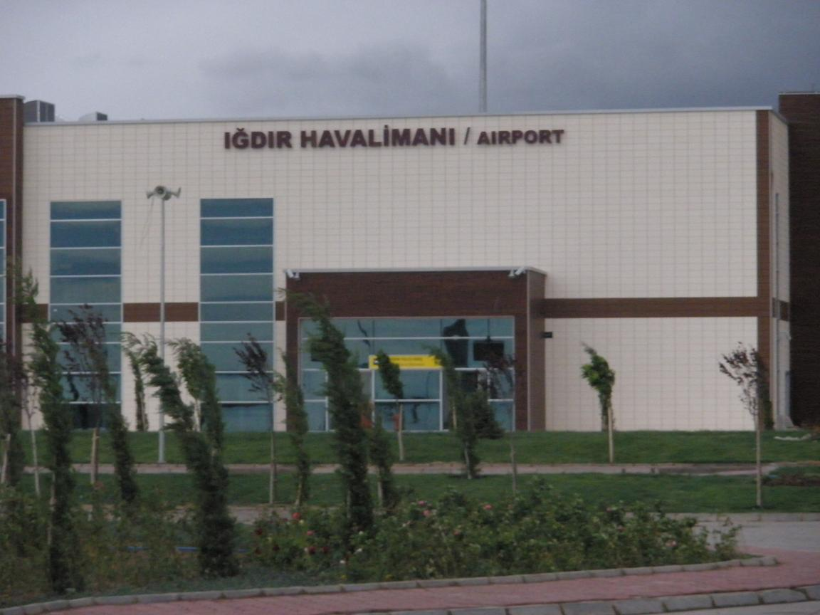 A view from Iğdır Airport.